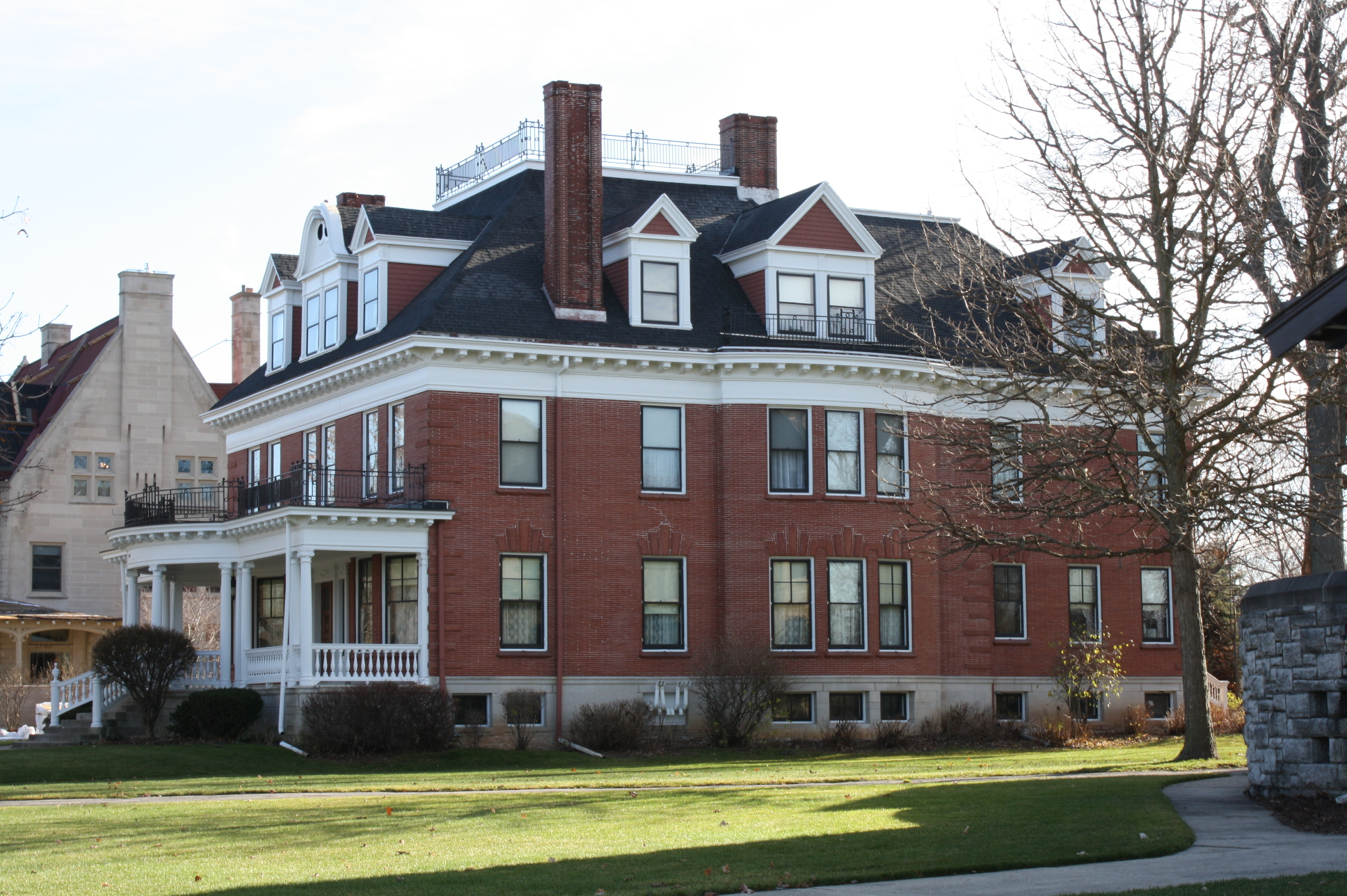 The Franklyn C. Shattuck House in Neenah, Wisconsin, now the Bergstrom-Mahler Museum. It is listed on the National Register of Historic Places.